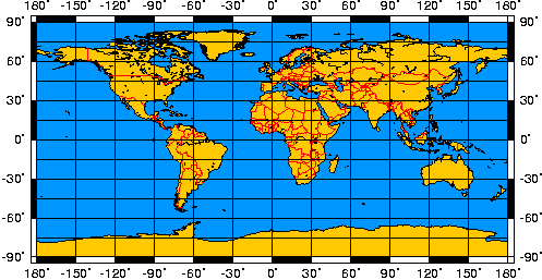 Equidistant Cylindrical Projection of the Earth